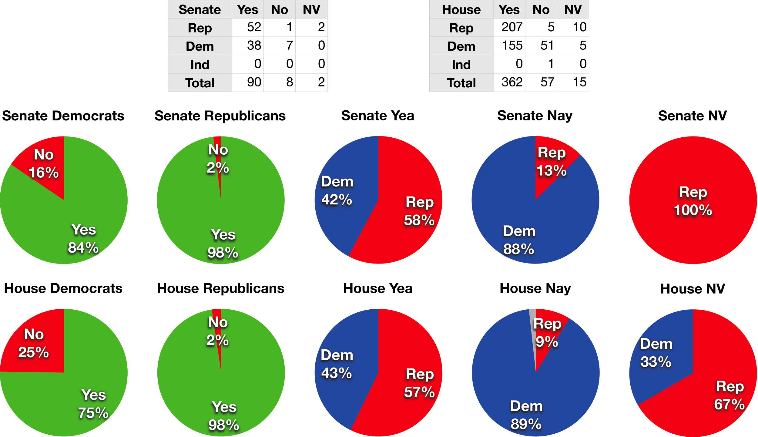 A chart representing the Senate and House votes for the Gramm-Leach-Bliley Act of 1999.